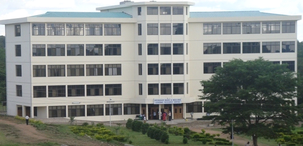 The Library Block, at the St. Augustine University of Tanzania, Malimbe Campus